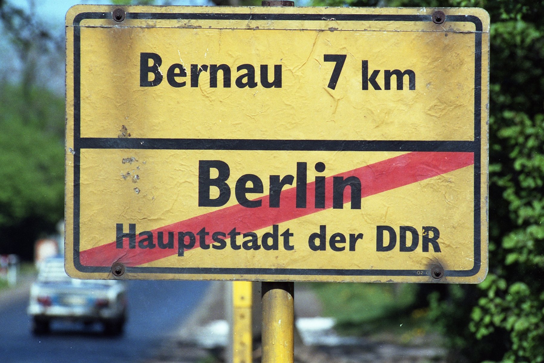 Town Sign Berlin